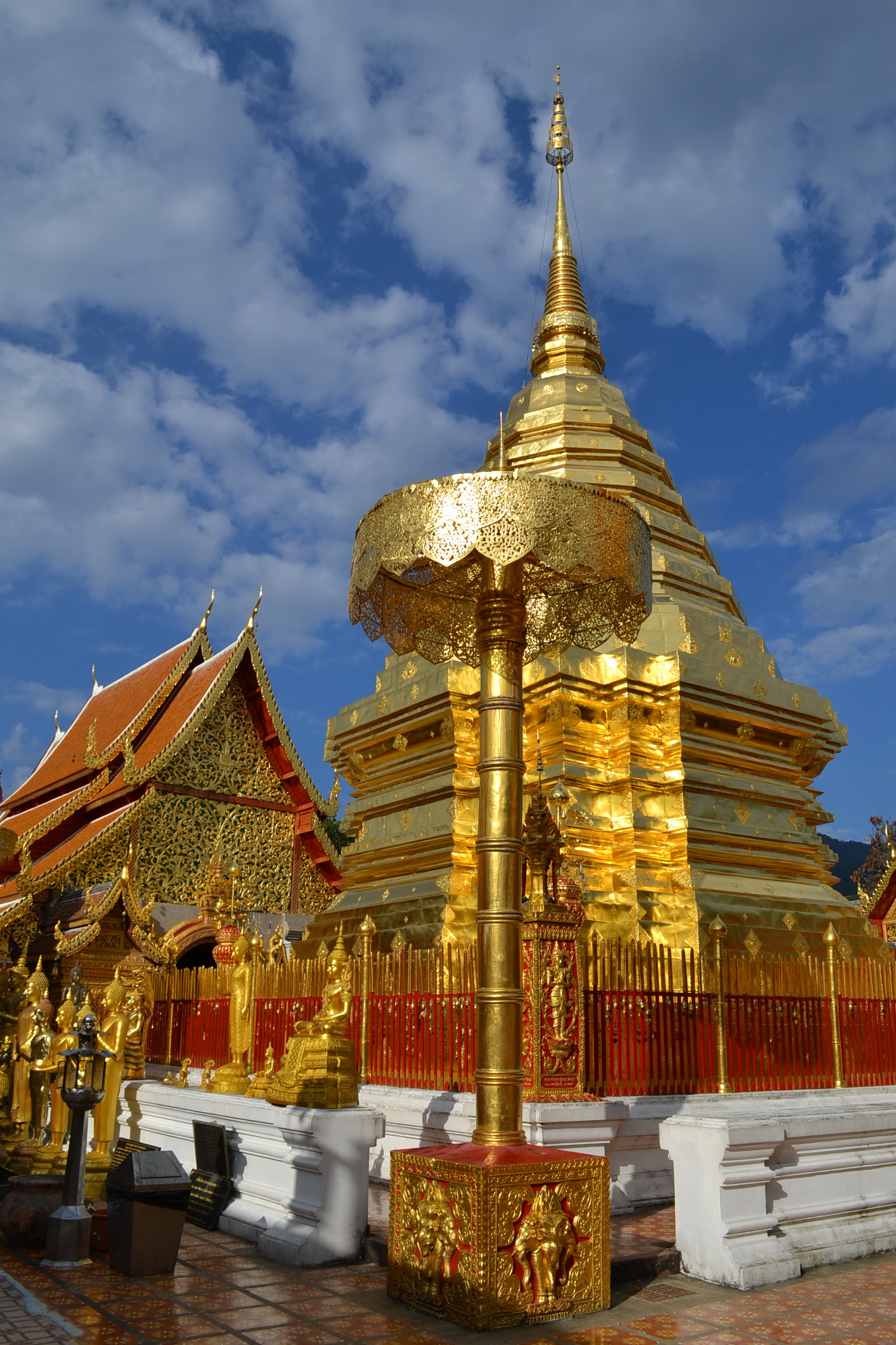 Wat Phrathat Doi Suthep, Chiang Mai, Thailand.Location: Wat Phrathat Doi Suthep Chiang Mai.